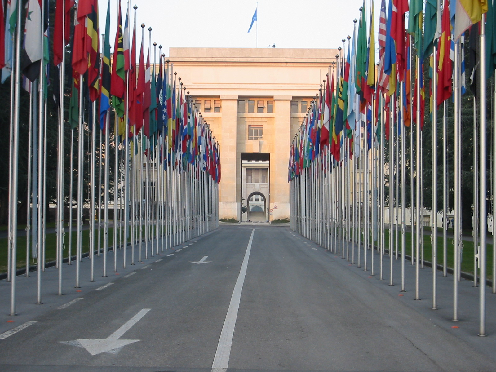 Flags at the ONU building, Geneva.